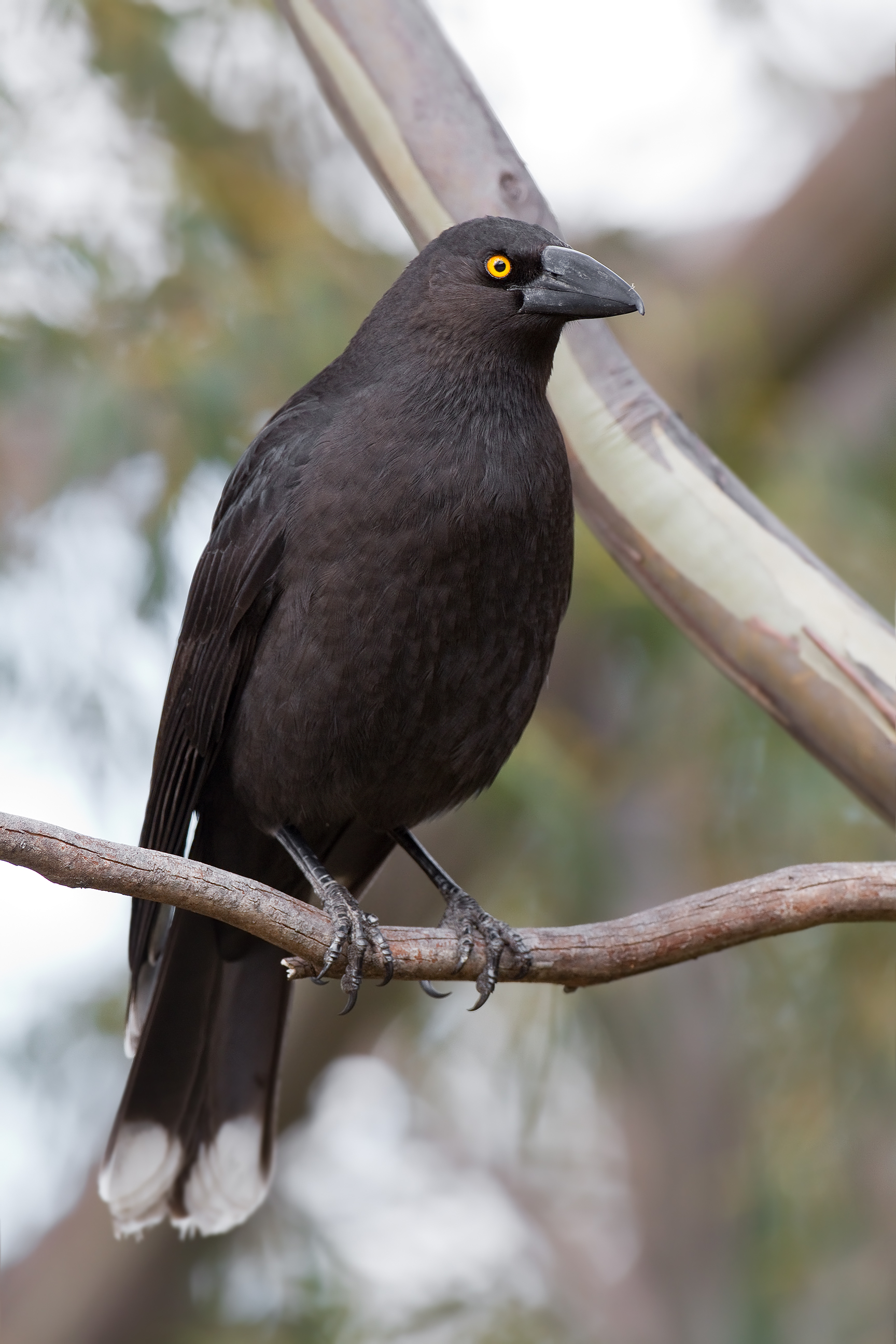 Black Currawong (Strepera fuliginosa), Mount Field National Park, Tasmania, Australia